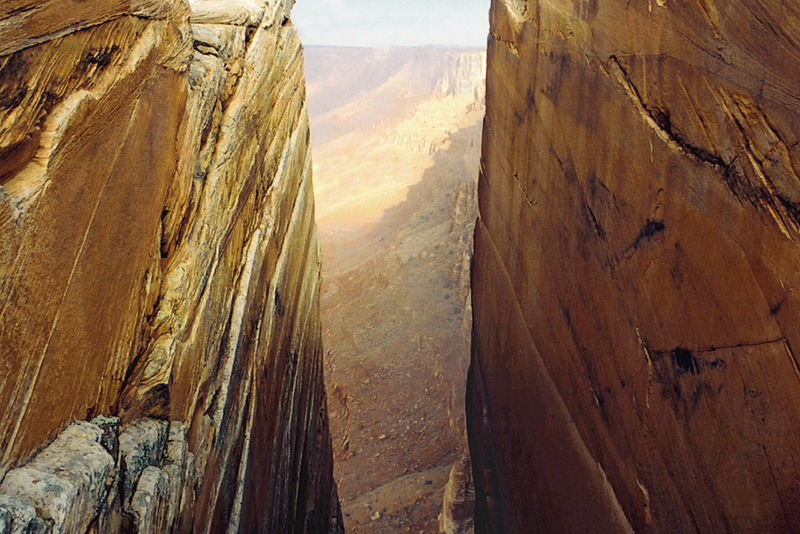 Sunrise thru cleft, Vermilion Cliffs National Monument, Arizona, USA